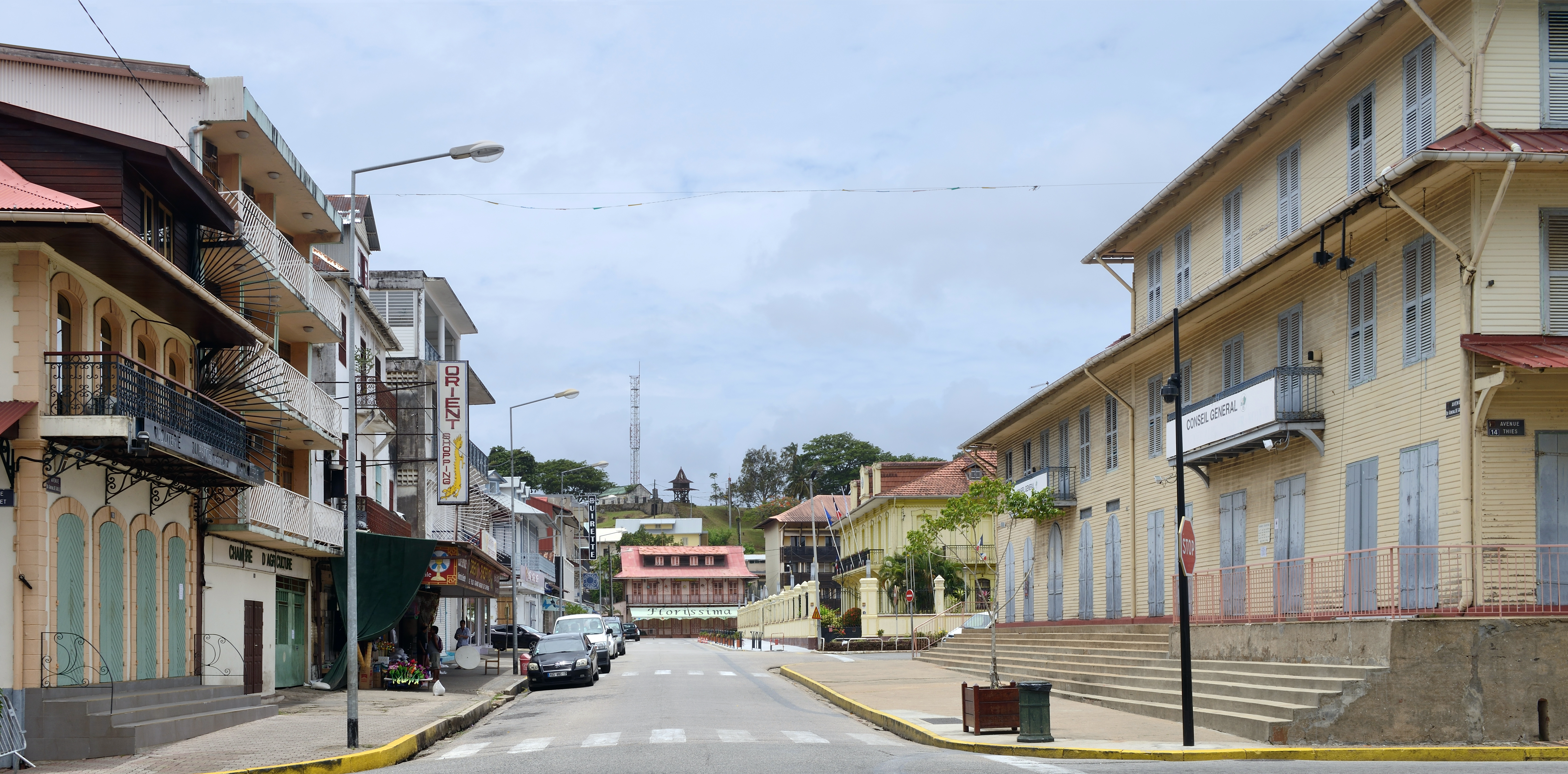 Cayenne, avenue du Général-de-Gaulle.